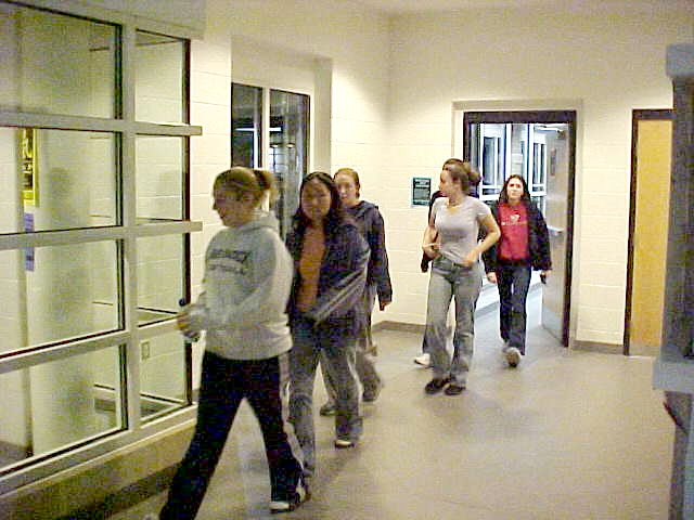 College students evacuate Potomac Hall, a dormitory at James Madison University, for a fire drill.